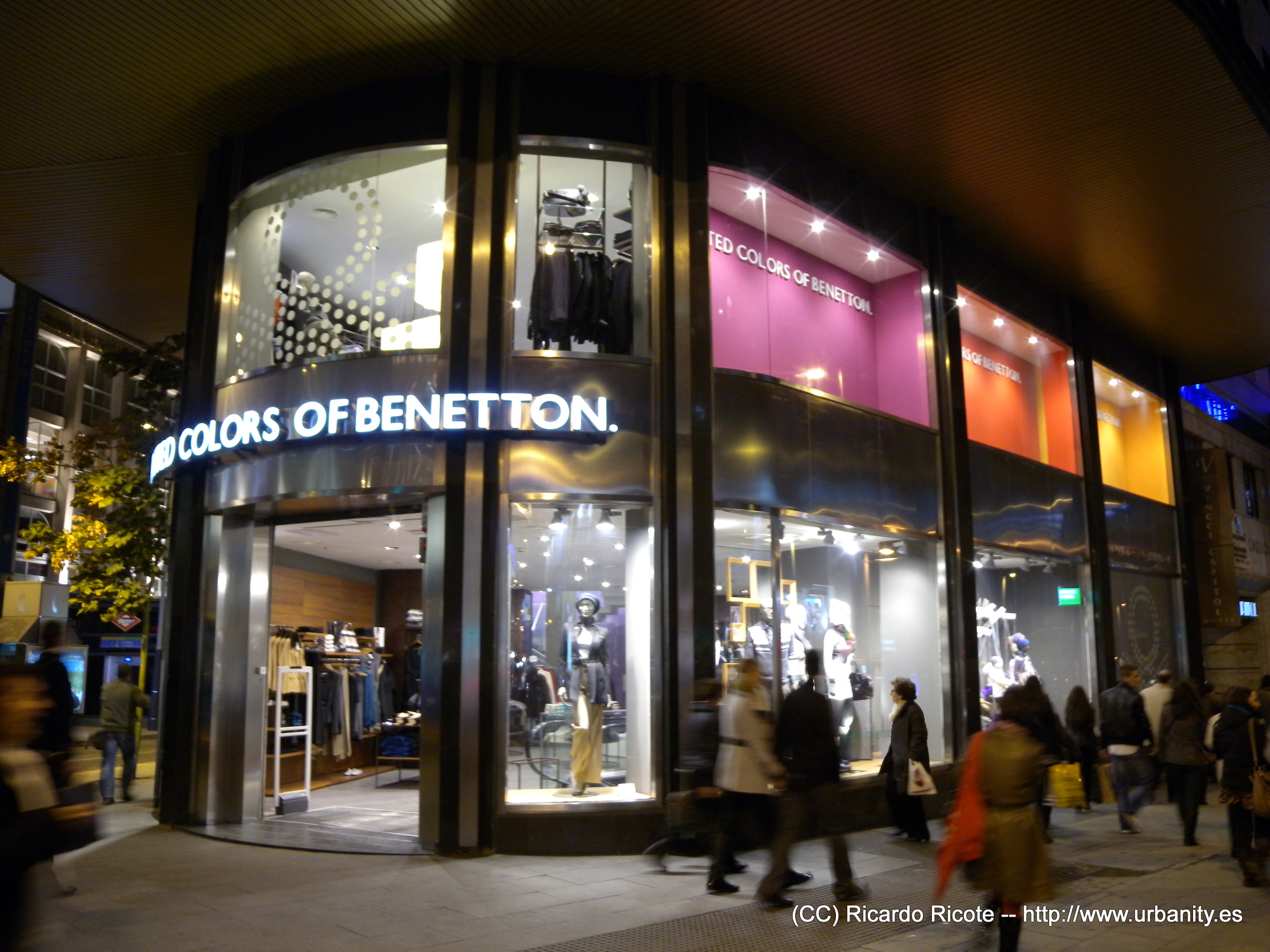 United Colors of Benetton / Edificio Capitol